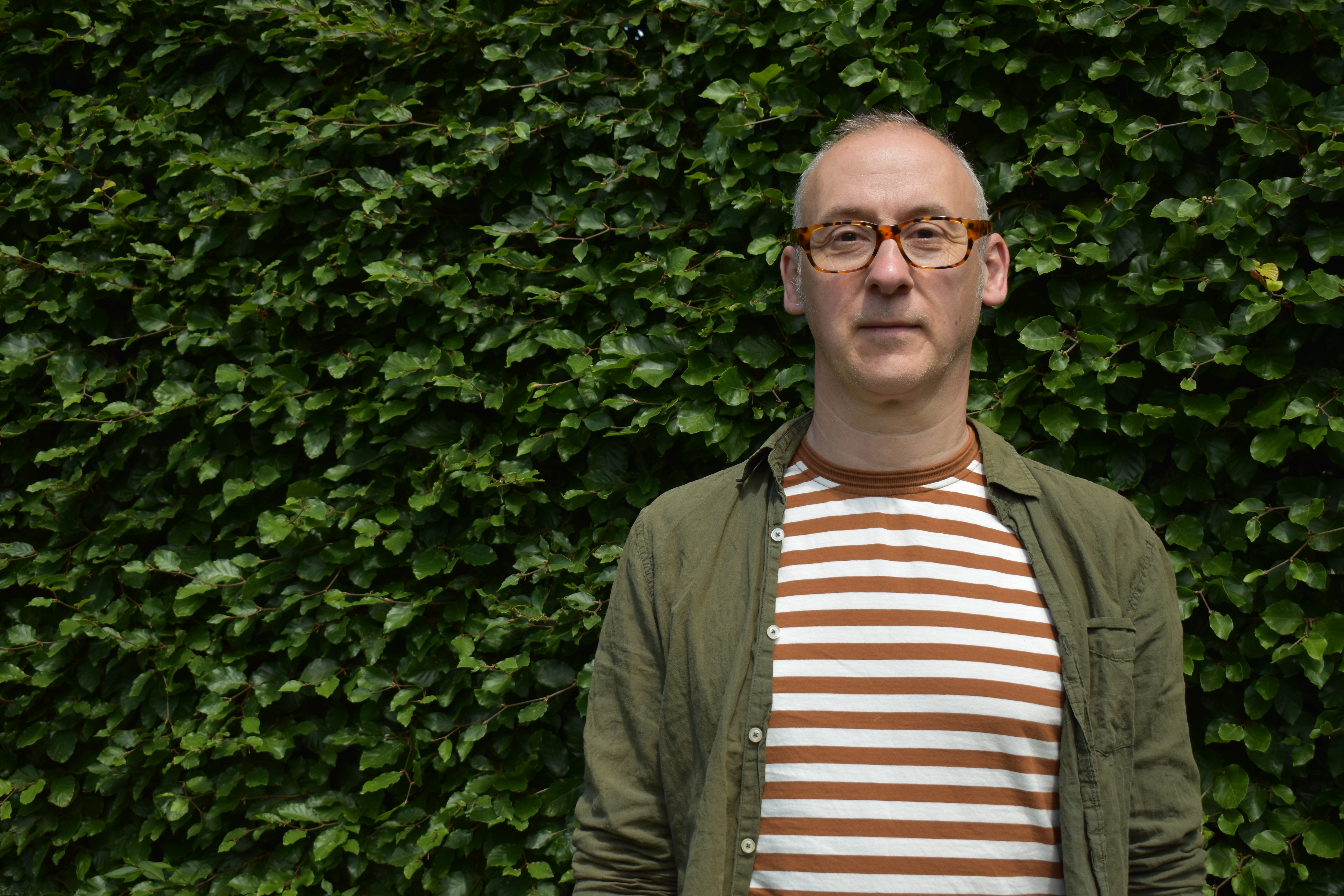 Jim Jupp